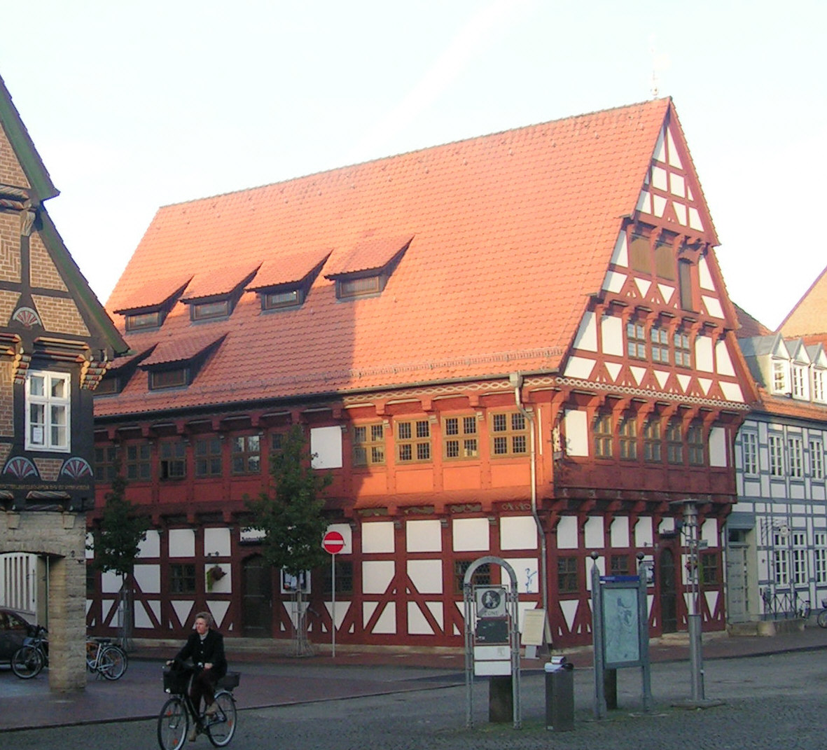 Old town hall of Gifhorn, Germany